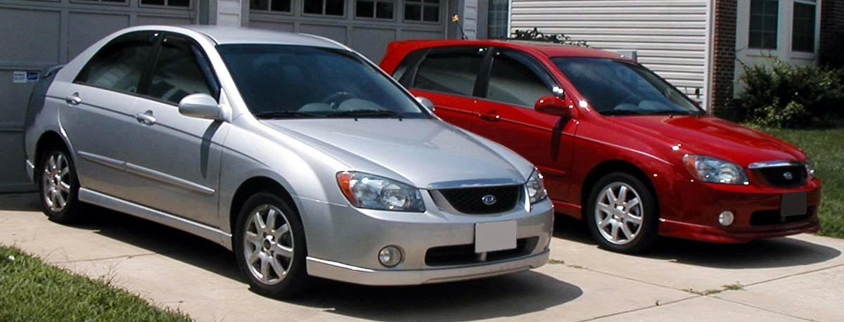 Kia Spectra SX sedan and Spectra5 hatchback photographed in USA.